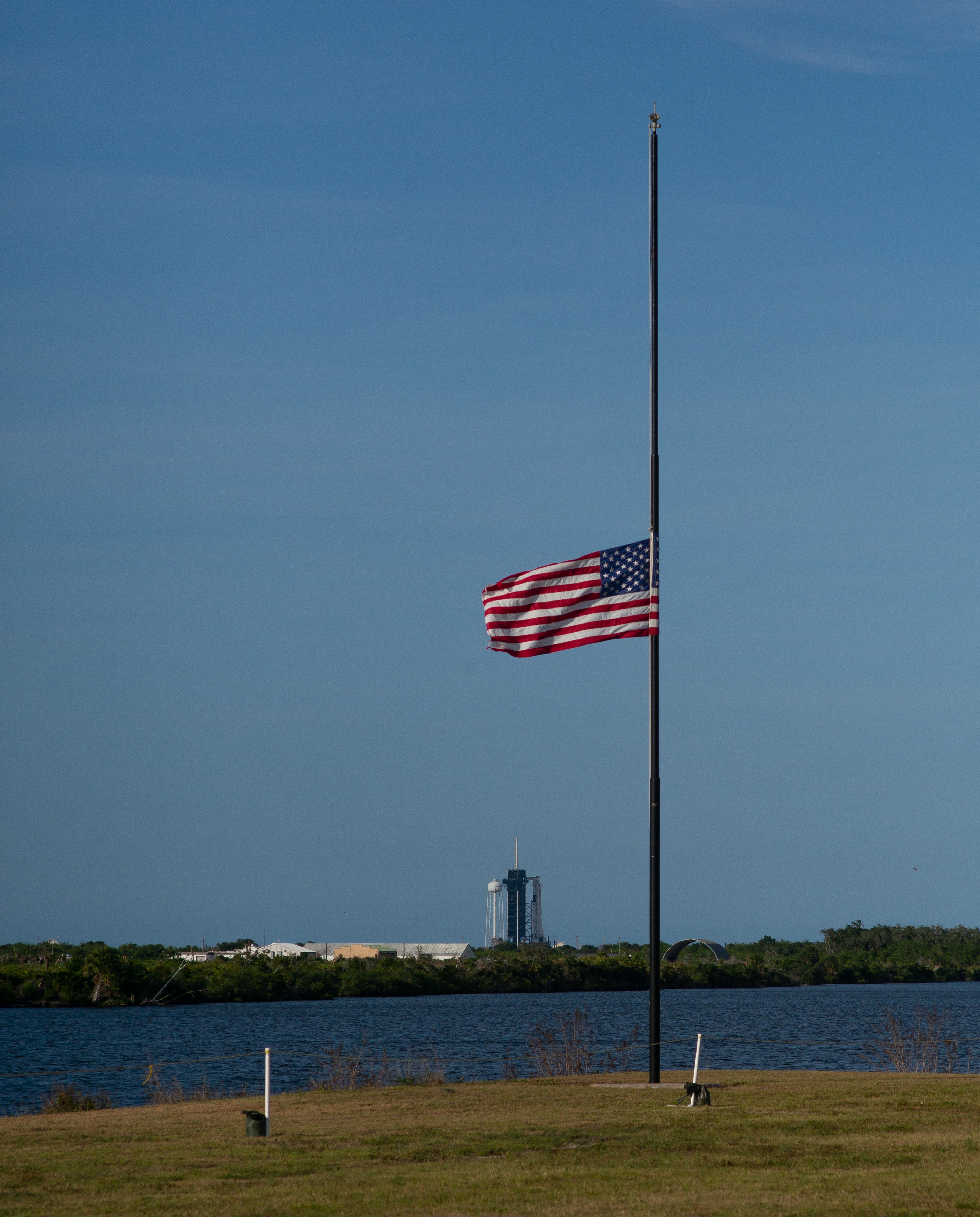 The American flag flies at half-staff next to the countdown clock at NASA’s Kennedy Space Center Press Site, Friday, May 22, 2020, in Florida. President Donald Trump directed on Thursday that flags be lowered to half-staff until sunset on May 24th “as a mark of solemn respect for the victims of the coronavirus pandemic.” NASA’s SpaceX Demo-2 mission is the first launch with astronauts of the SpaceX Crew Dragon spacecraft and Falcon 9 rocket to the International Space Station as part of the agency’s Commercial Crew Program. The test flight serves as an end-to-end demonstration of SpaceX’s crew transportation system. Robert Behnken and Douglas Hurley are scheduled to launch at 4:33 p.m. EDT on Wednesday, May 27, from Launch Complex 39A at the Kennedy Space Center. A new era of human spaceflight is set to begin as American astronauts once again launch on an American rocket from American soil to low-Earth orbit for the first time since the conclusion of the Space Shuttle Program in 2011. Photo Credit: (NASA/Joel Kowsky)